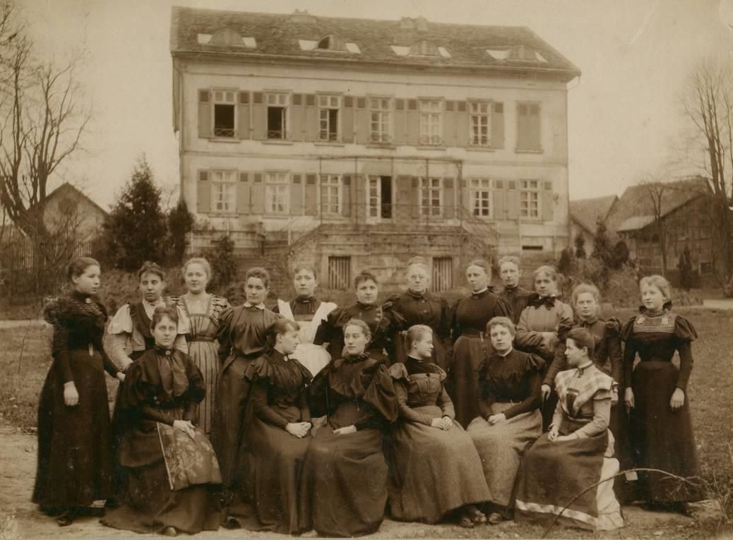 Ofleiden 1898 Reifensteiner Schule Nieder-Ofleiden, Freifrau von Schenck zu Schweinsberg (6. von rechts stehend in der 2. Reihe), aufgenommen 1898., Fotograf unbekannt